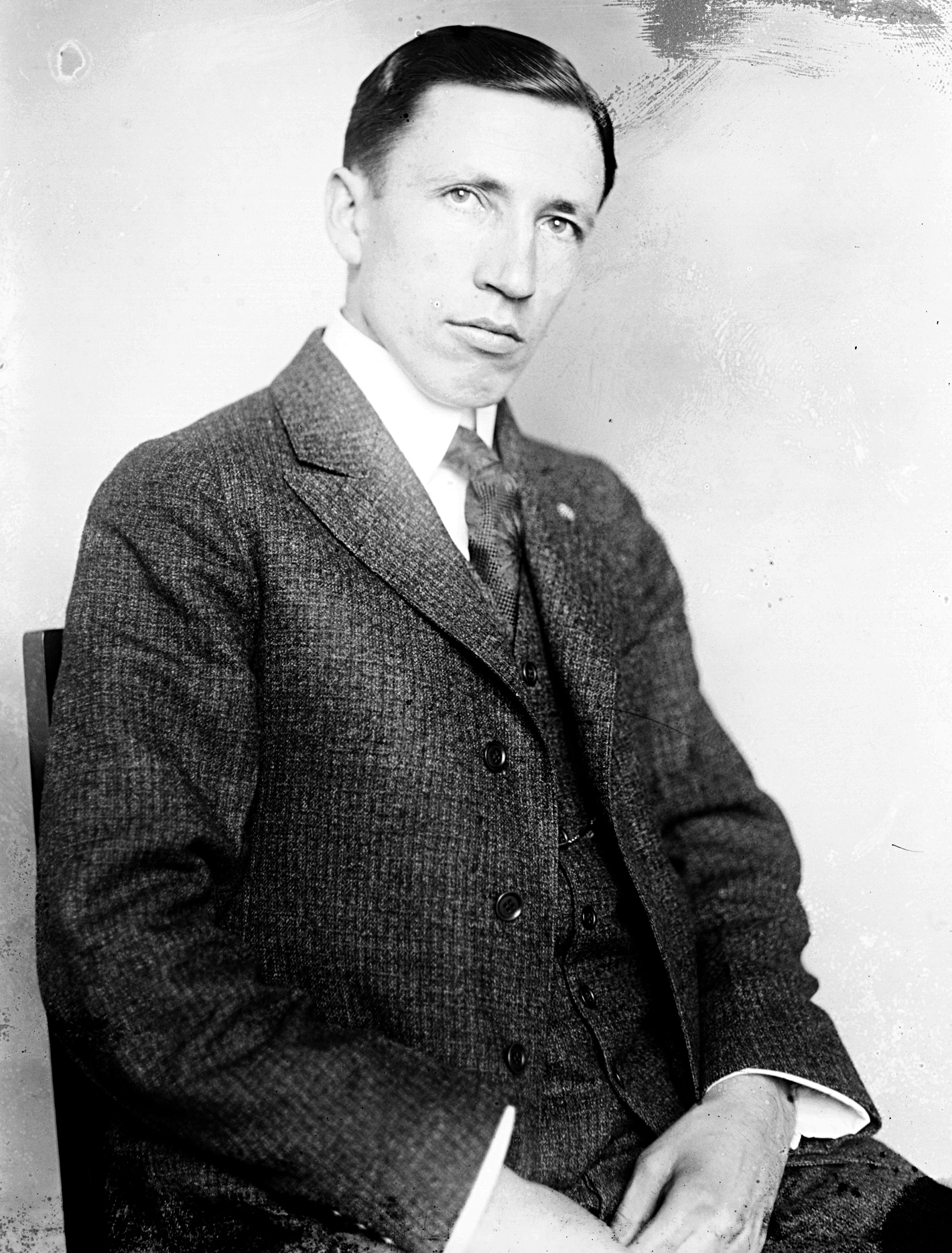 B. Carroll Reece, US Representative from Tennessee